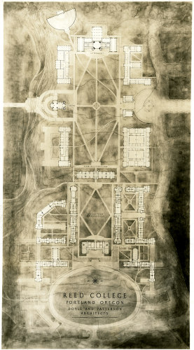 From Reed College archives